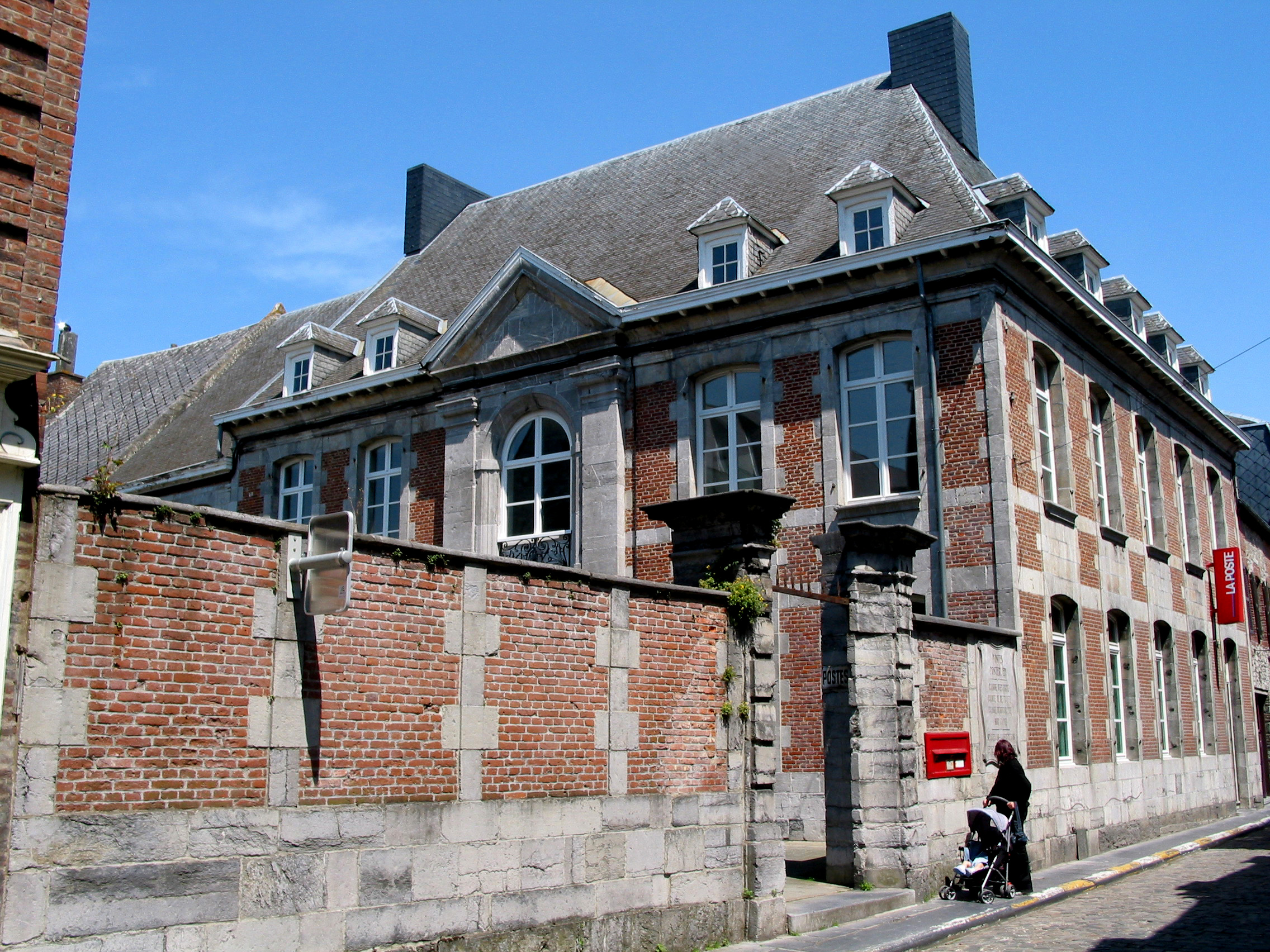 Chimay (Belgium), the post office.